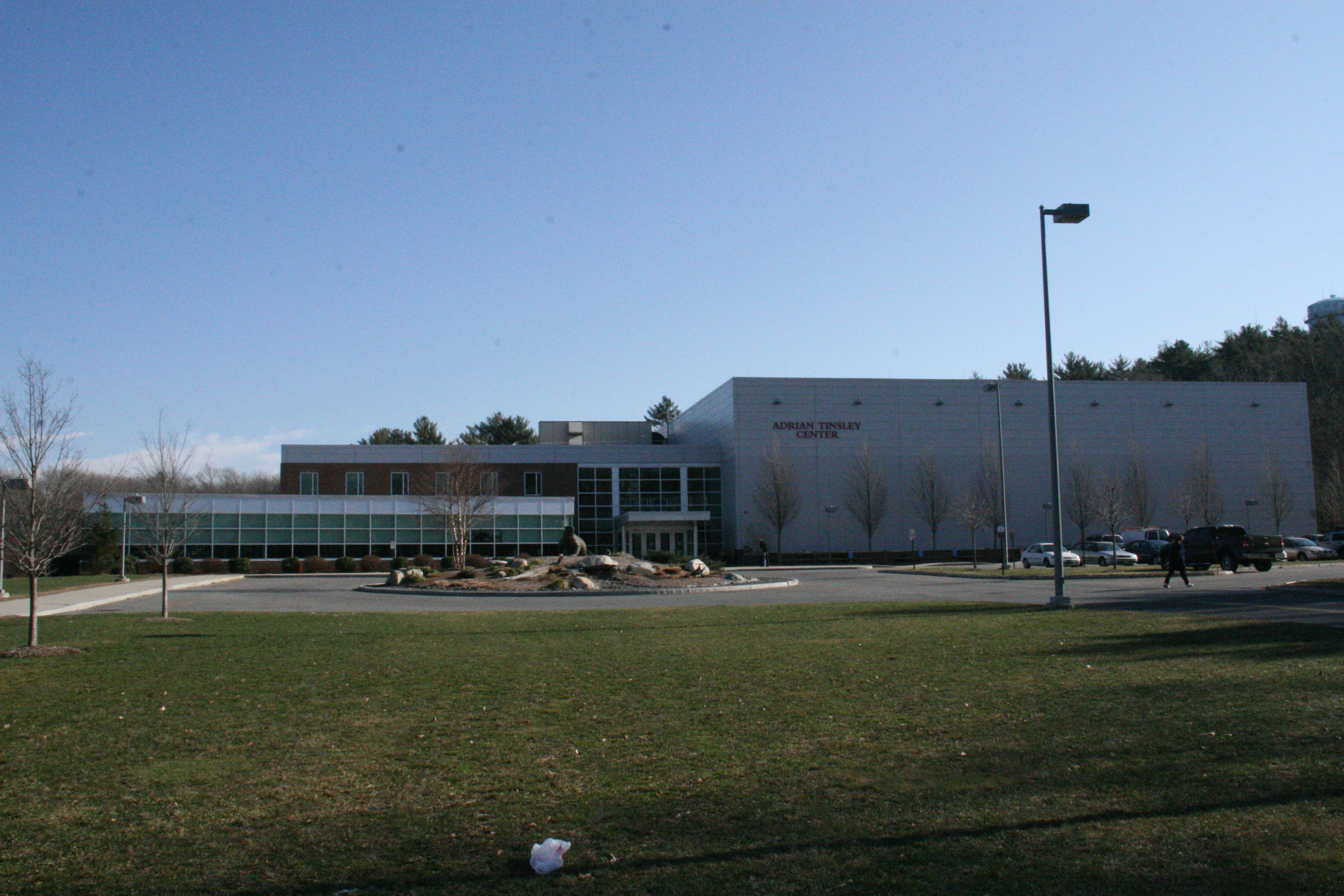 Bridgewater University 325 Plymouth St. Bridgewater Ma